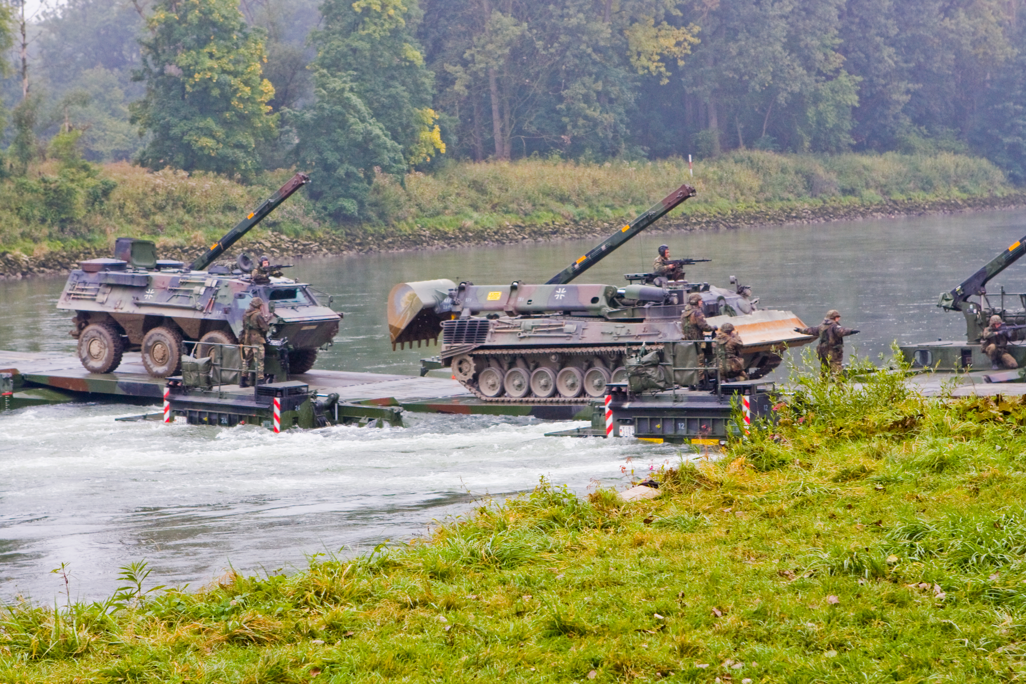 Transportpanzer 1 Fuchs and AEV crossing the M3G mobile ferry.